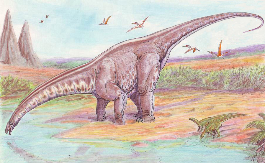 Illustration of Apatosaurus louisae